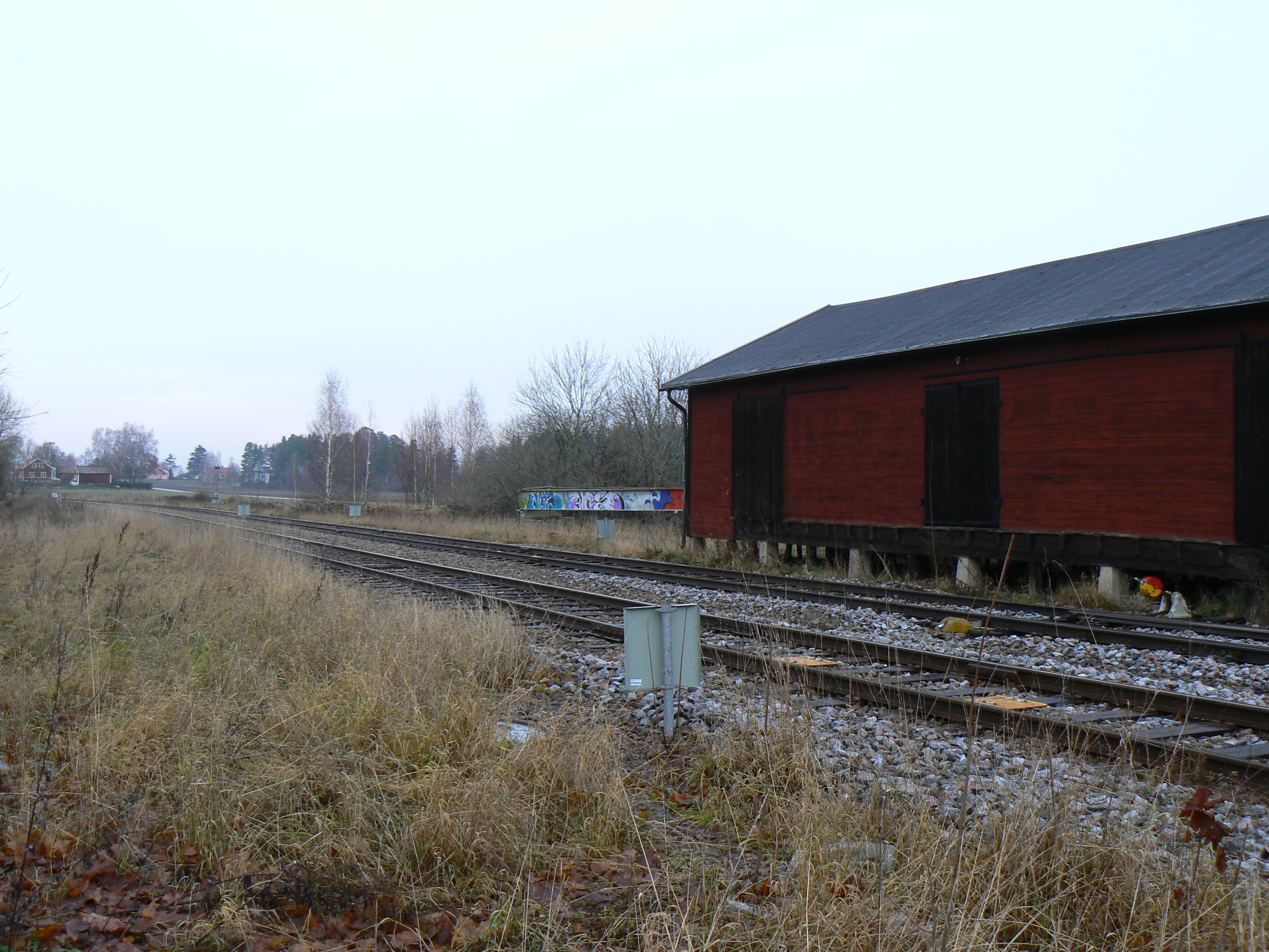 Hjulsbro station on the Stångådalsbanan railway in Sweden. Today only used for trains to meet. Photo by Skvattram in 2006.